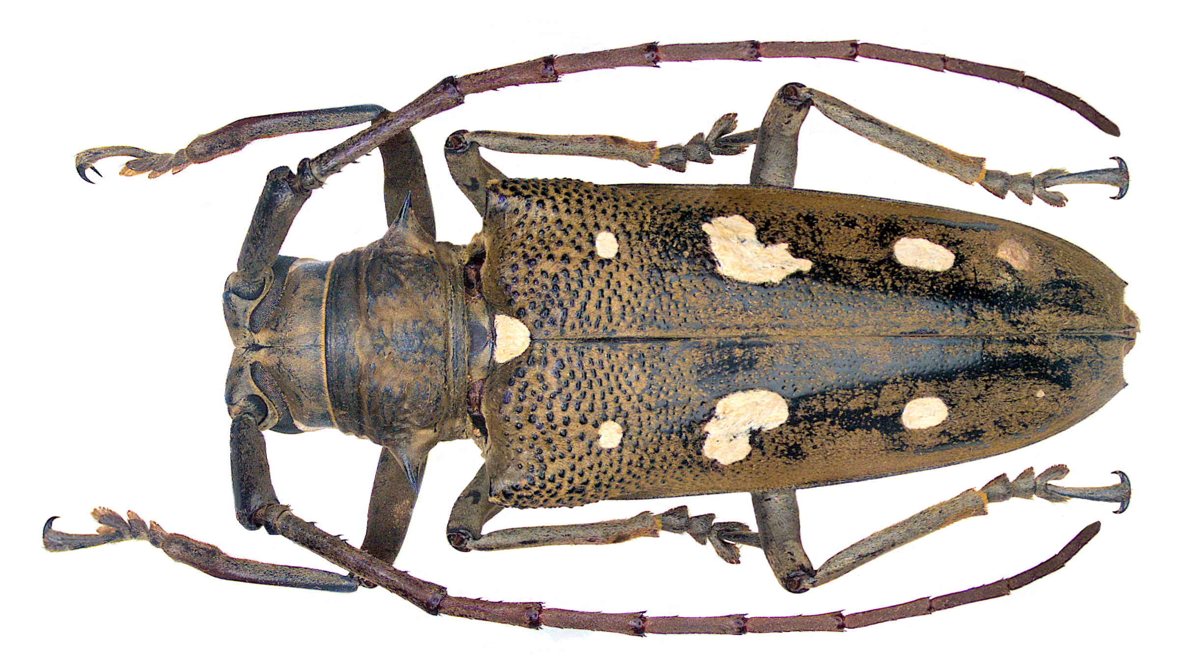 Family: Cerambycidae Size: 38 mm Location: Philippines, Leyte leg. local collector, 22.VII.2010; det. Weigel, 2016 Photo: U.Schmidt, 2017